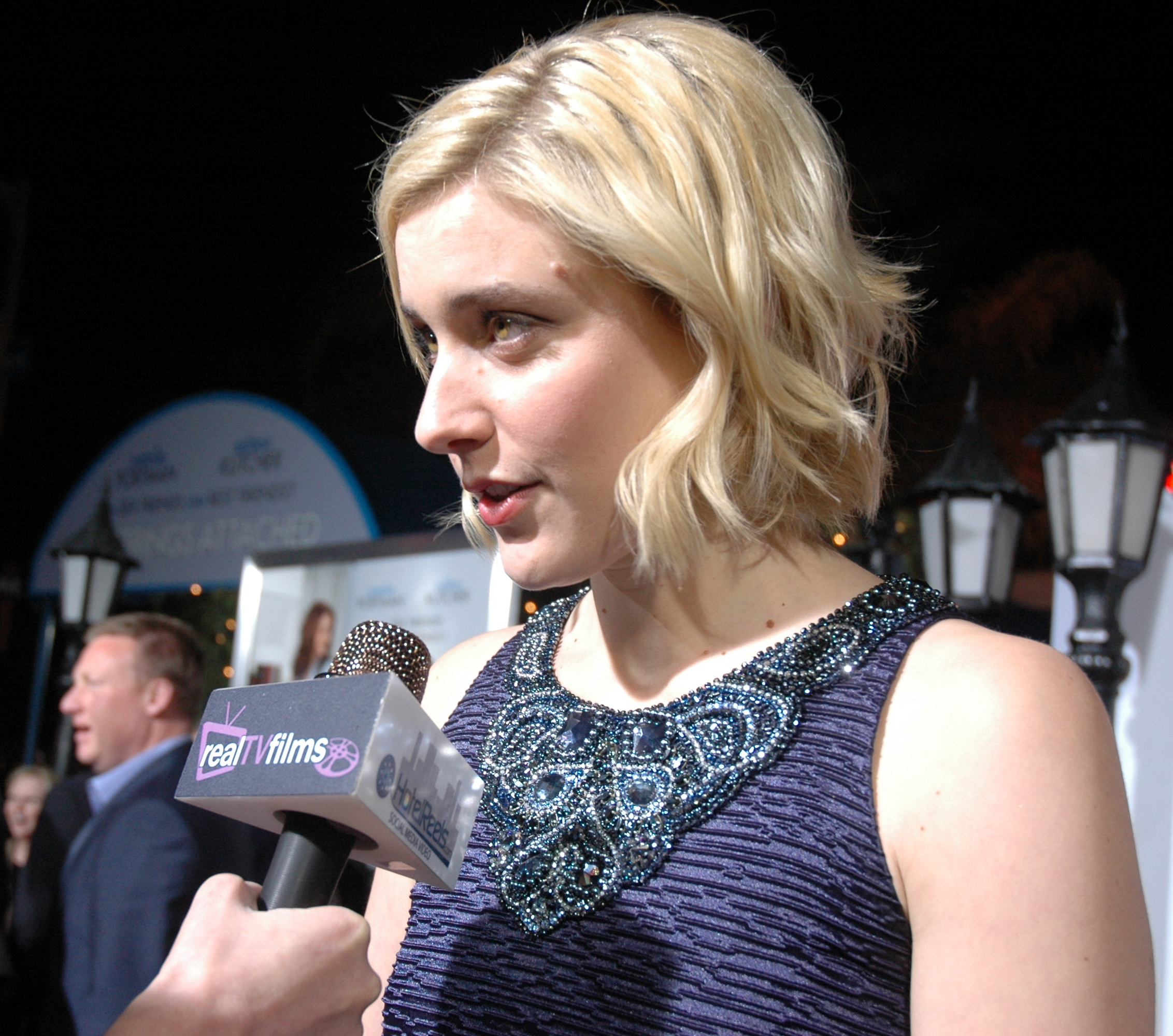 GRETA GERWIG, LA Premiere of "NO STRINGS ATTACHED", Regency Village Theatre, Westwood, 1-11-11.Cast members and filmmakers attending include: Ivan Reitman (Director), Natalie Portman (Emma), Ashton Kutcher (Adam), Kevin Kline (Alvin), Lake Bell (Lucy), Greta Gerwig (Patrice), Chris "Ludacris" Bridges (Wallace), Jake Johnson (Eli), Ben Lawson (Sam), Adhir Kalyan (Kevin), Brian Dierker (Bones), Stephanie Scott (Young Emma), Elizabeth Meriwether (Writer), Tom Pollock (Executive Producer) Joe Medjuck (Producer), Jeff Clifford (Producer), Roger Birnbaum (Executive Producer), Gary Barber (Executive Producer), Jonathan Glickman (Executive Producer)